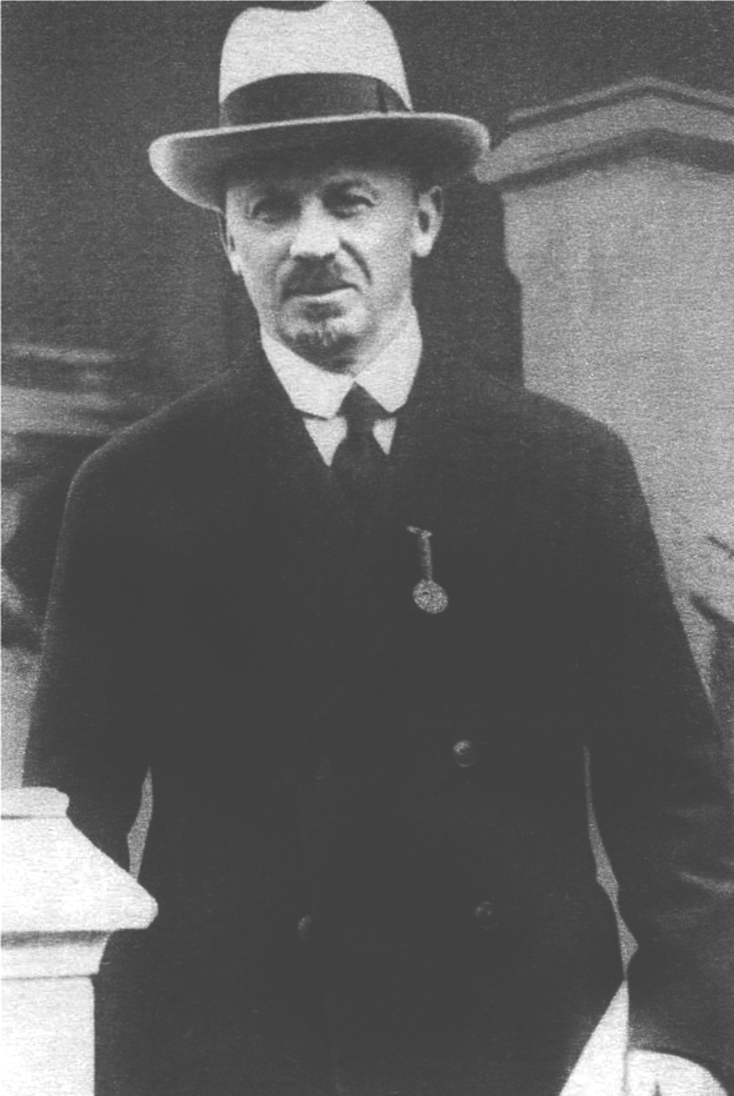 Nikolai Bukharin in London 1931